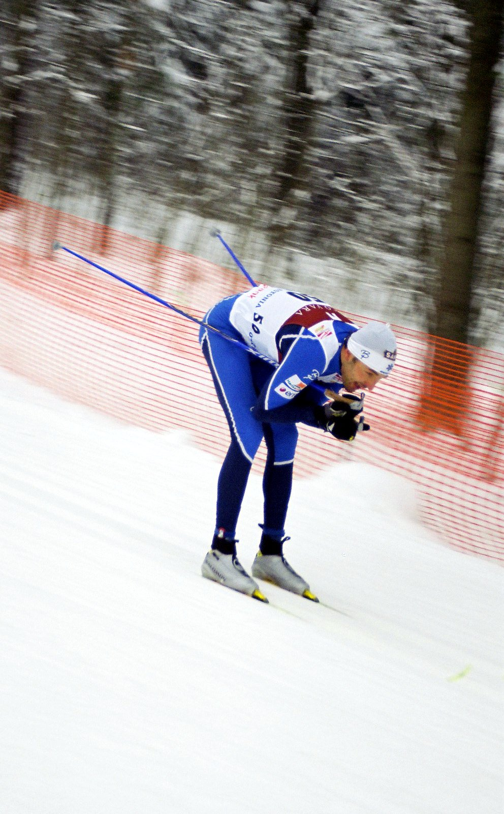 Andrus Veerpalu FIS World Cup Cross Country - January 7-8 2006 in Otepää, Estonia Men's 15k Classic XC